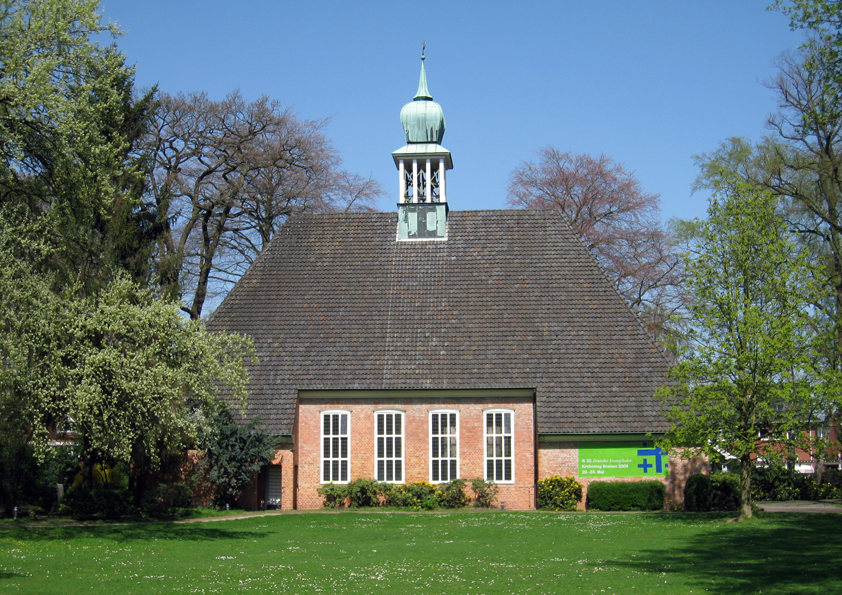 The new St. Remberti church in Bremen-Schwachhausen, Germany, in the year 2009. Built by Eberhard Gildemeister (1897–1978) in 1950/51.